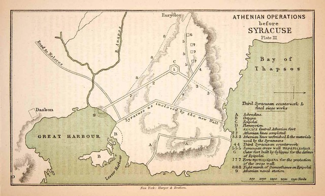 Map of Syracuse - Athenian expedition